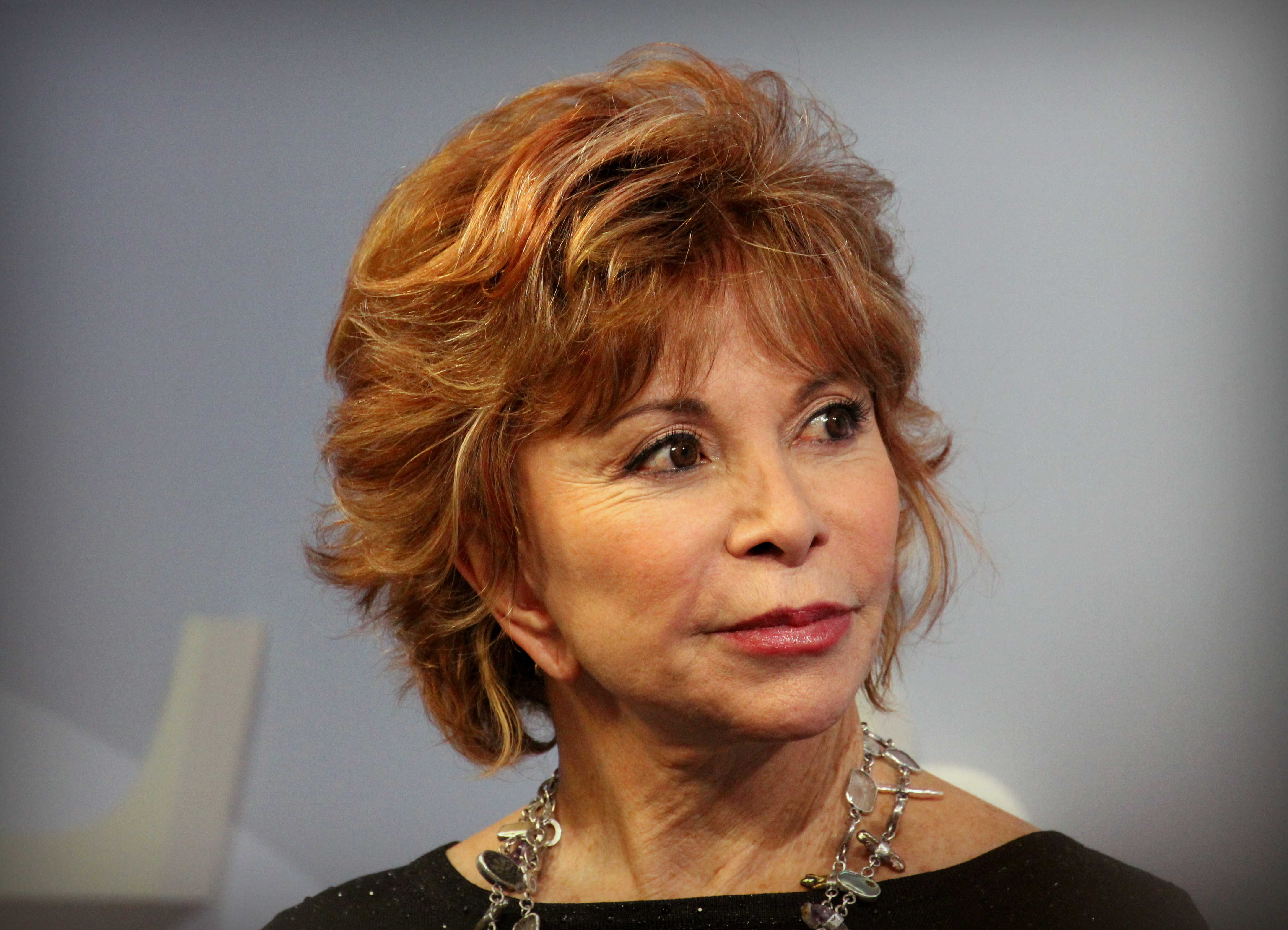 Isabel Allende at Frankfurt Book Fair 2015